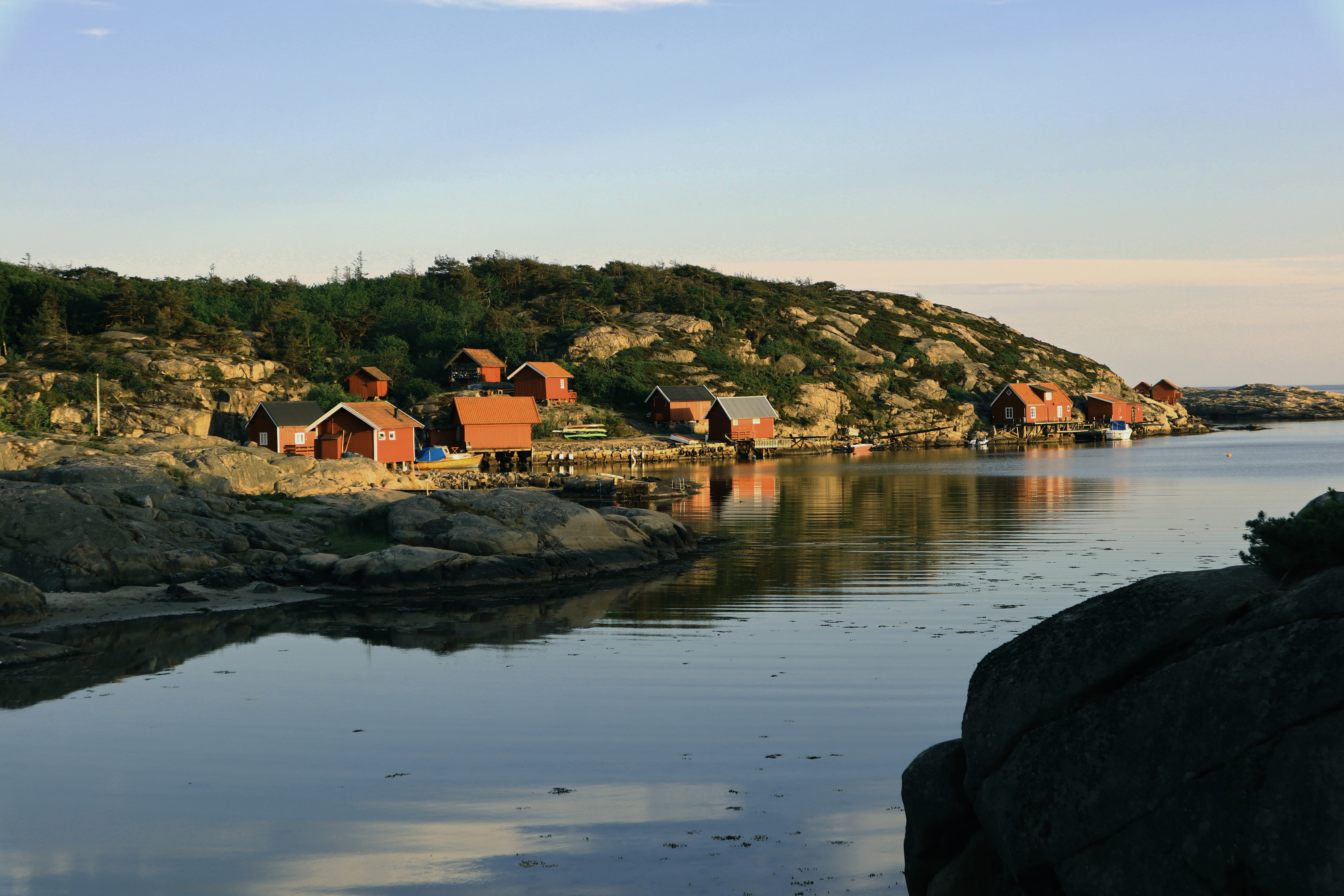 Kuvauven. Buildings protected by law.